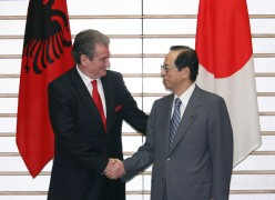 Sali Berisha, Prime Minister, met Yasuo Fukuda, Prime Minister, at the Prime Minister's Official Residence in Chiyoda Ward, Tōkyō Metropolis on February 5, 2008.